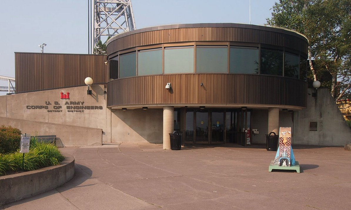 Lake Superior Maritime Visitor Center, 600 S Lake Ave, Duluth, Minnesota, USA. Viewed from the east.